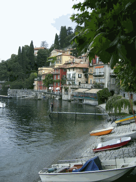 Old harbour in Varenna, Lake Como, Italy